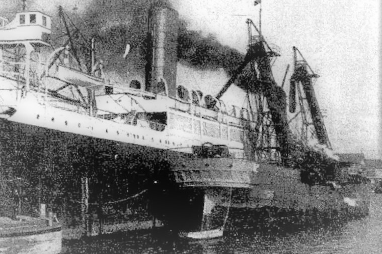 The mechanised coal hulk the Fortuna, formerly the sailing ship Macquarie, prior to that the Melbourne. as a coal hulk she was owned by the Wallarah Coal Co. and existed in this from from1909 to 1949, coaling steamships on Sydney Harbour. She was then turned into an ordinary coal hulk and finally scrapped in 1954.